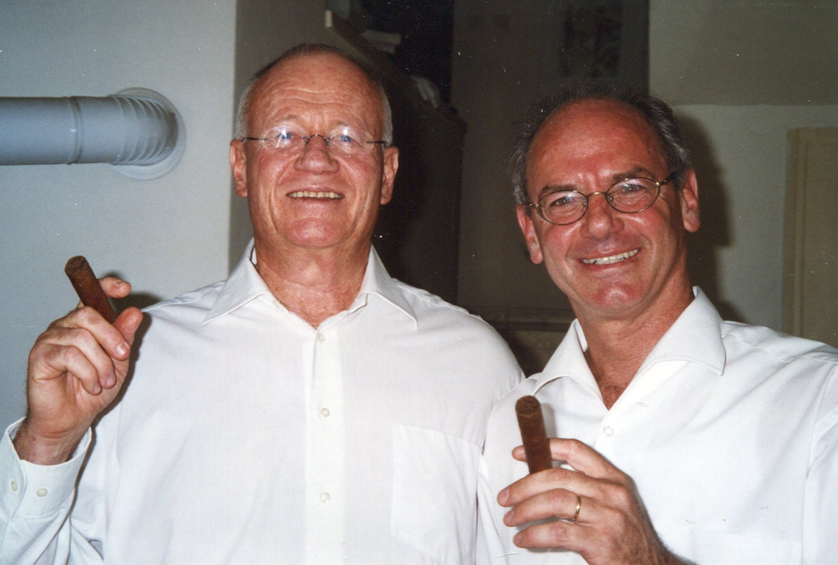 Ahron Bregman and Danny Yatom